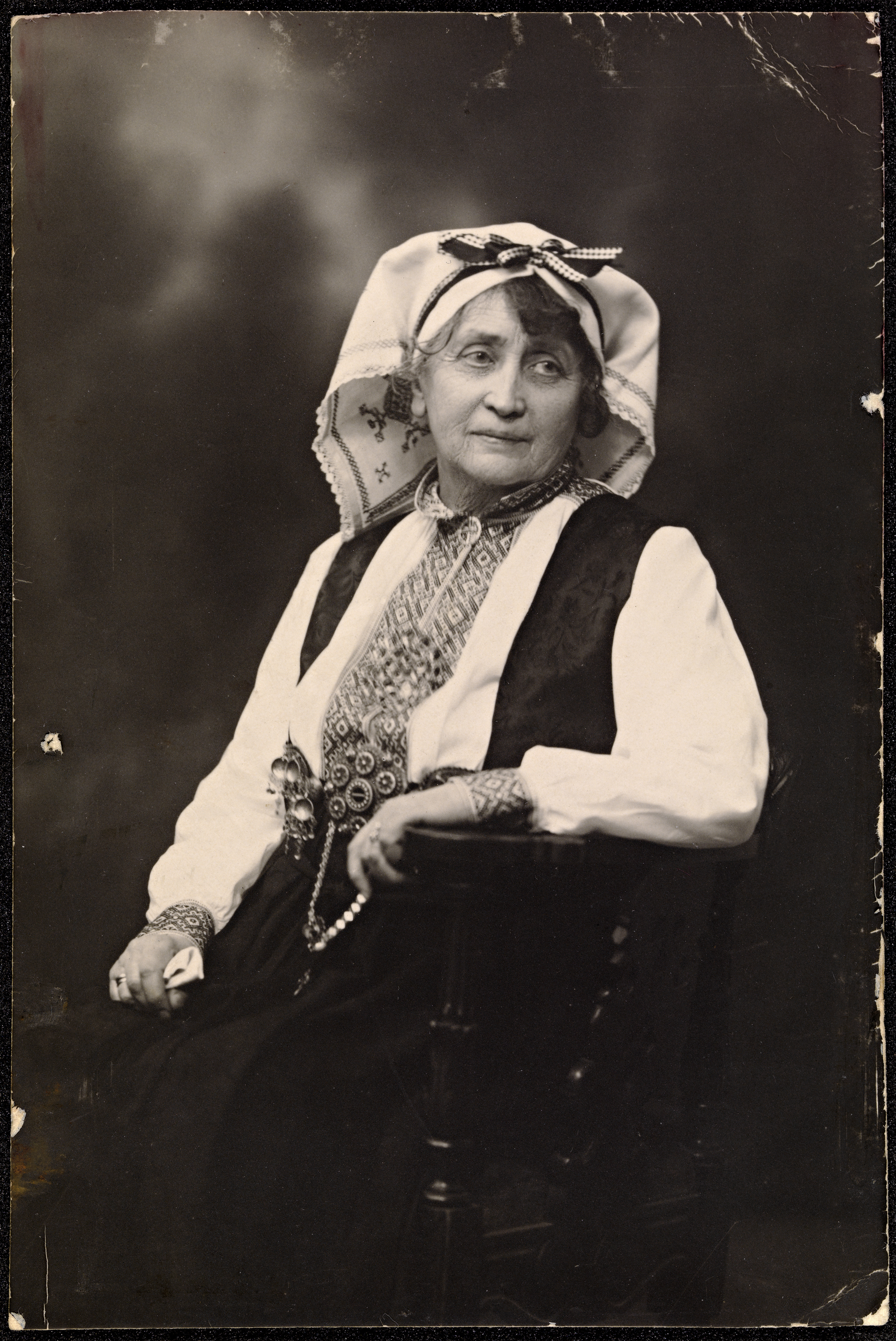 Fotograf / Photographer: Borgens Atelier (Oslo) Eier / Owner Institution: Nasjonalbiblioteket / National Library of Norway Lenke / Link: Bildesignatur / Image Number: blds_03007